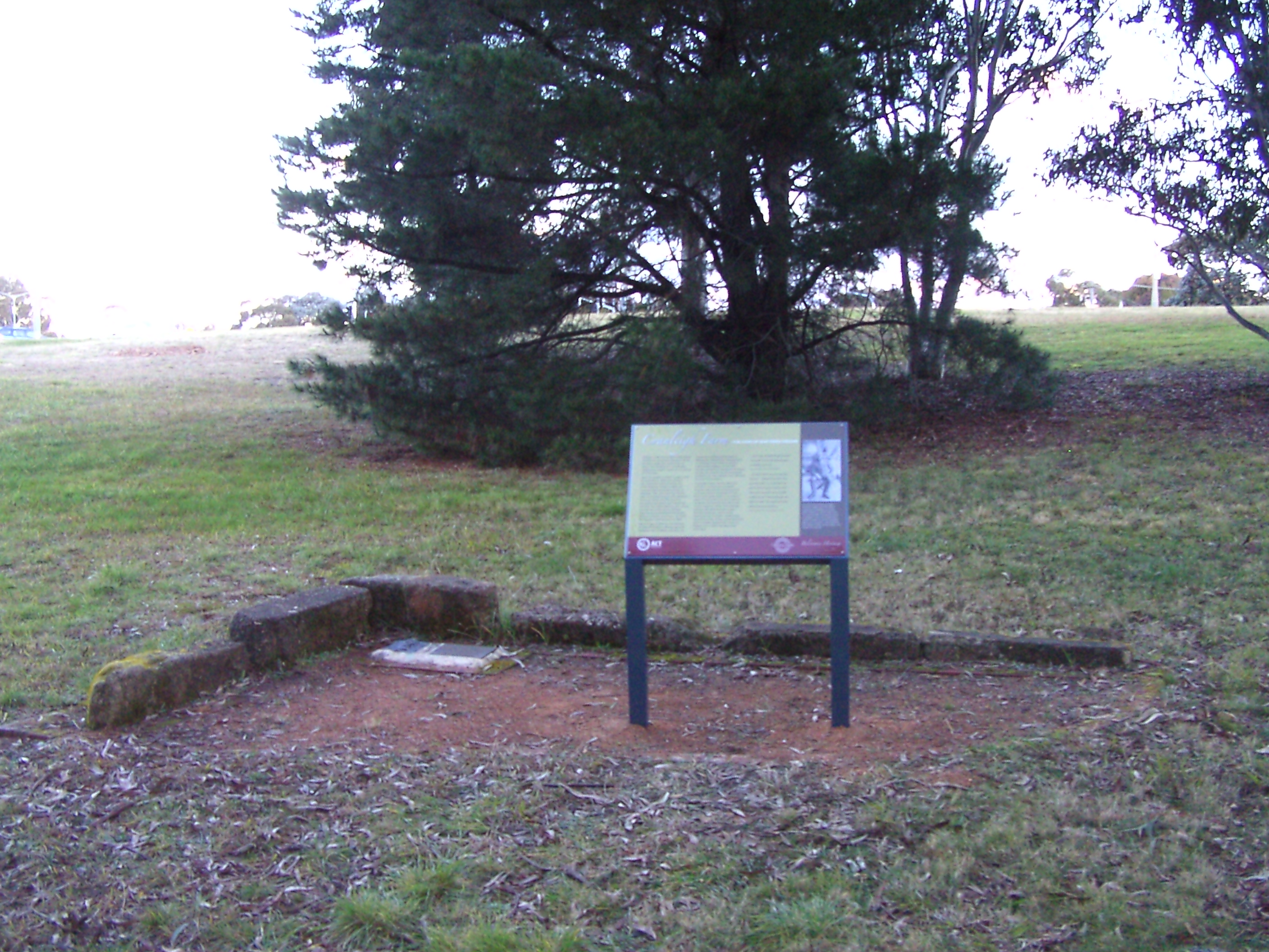 Remnants of the James_Gordon_Legge#CranleighCranleigh farm of Lieutenant General James Gordon Legge, Latham, Australian Capital Territory.